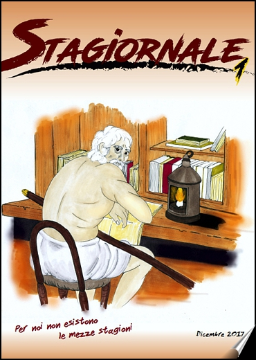 Bilingual journal published by Facoltà di Filologia dellʹUniversità di Belgrado : Instituto Italiano di Cultura in Belgrado.